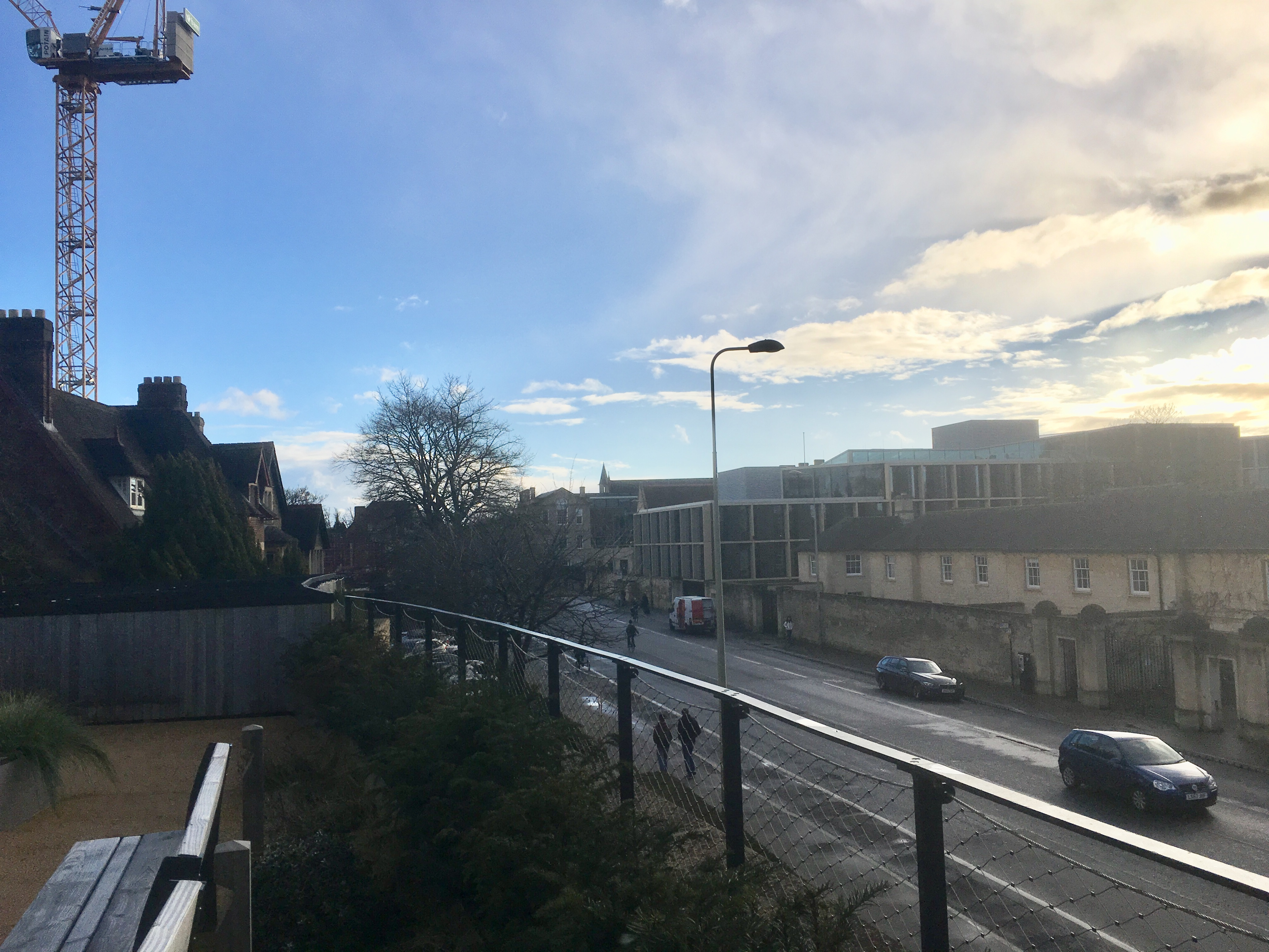 A view of Woodstock Road in Oxford, looking south from St Anne's College, towards the department of Mathematics.